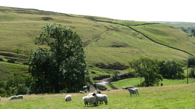 Rural scene at Helwith, North Yorkshire